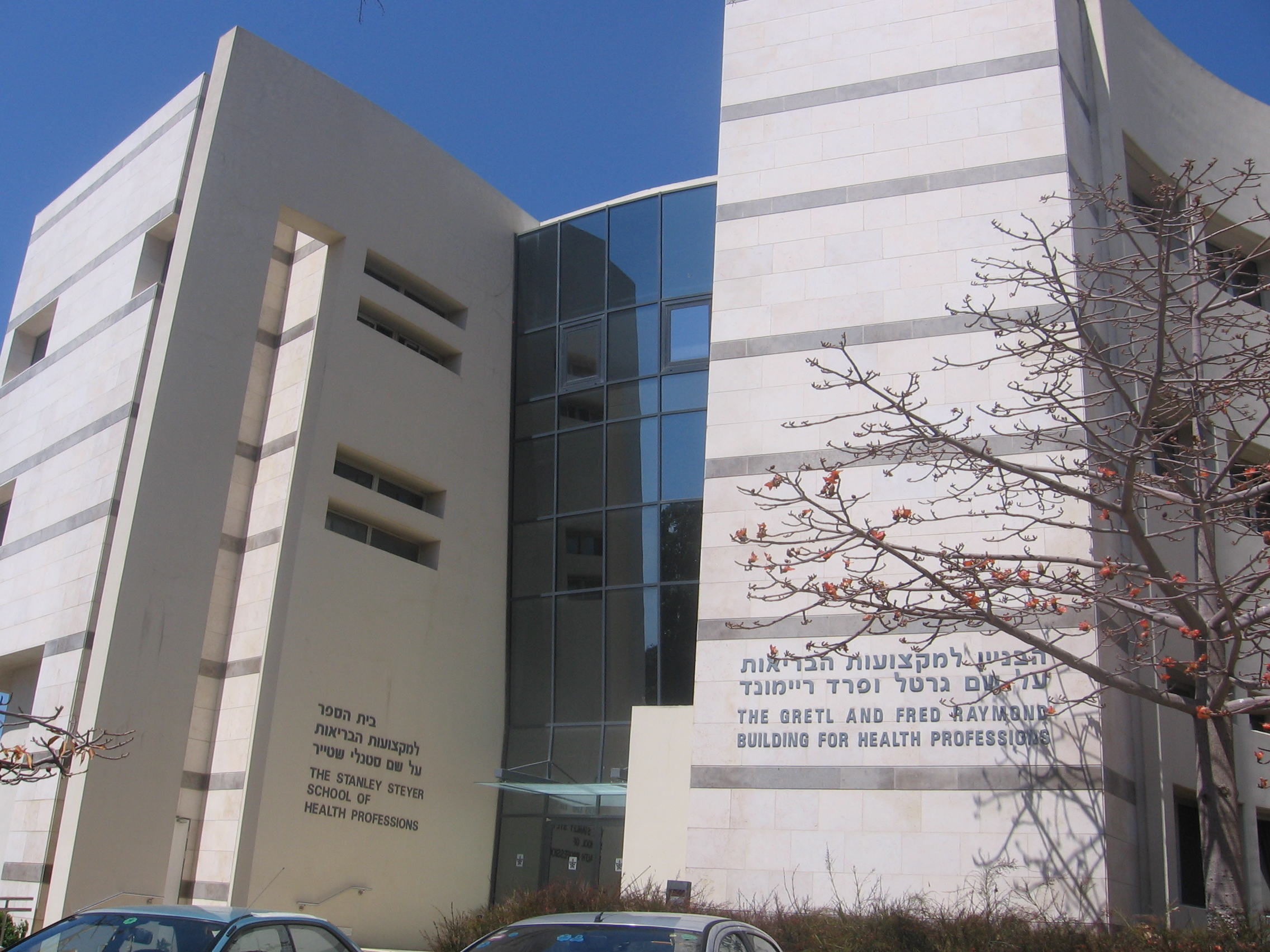 Raymond building for health professions in the Tel Aviv University (TAU).